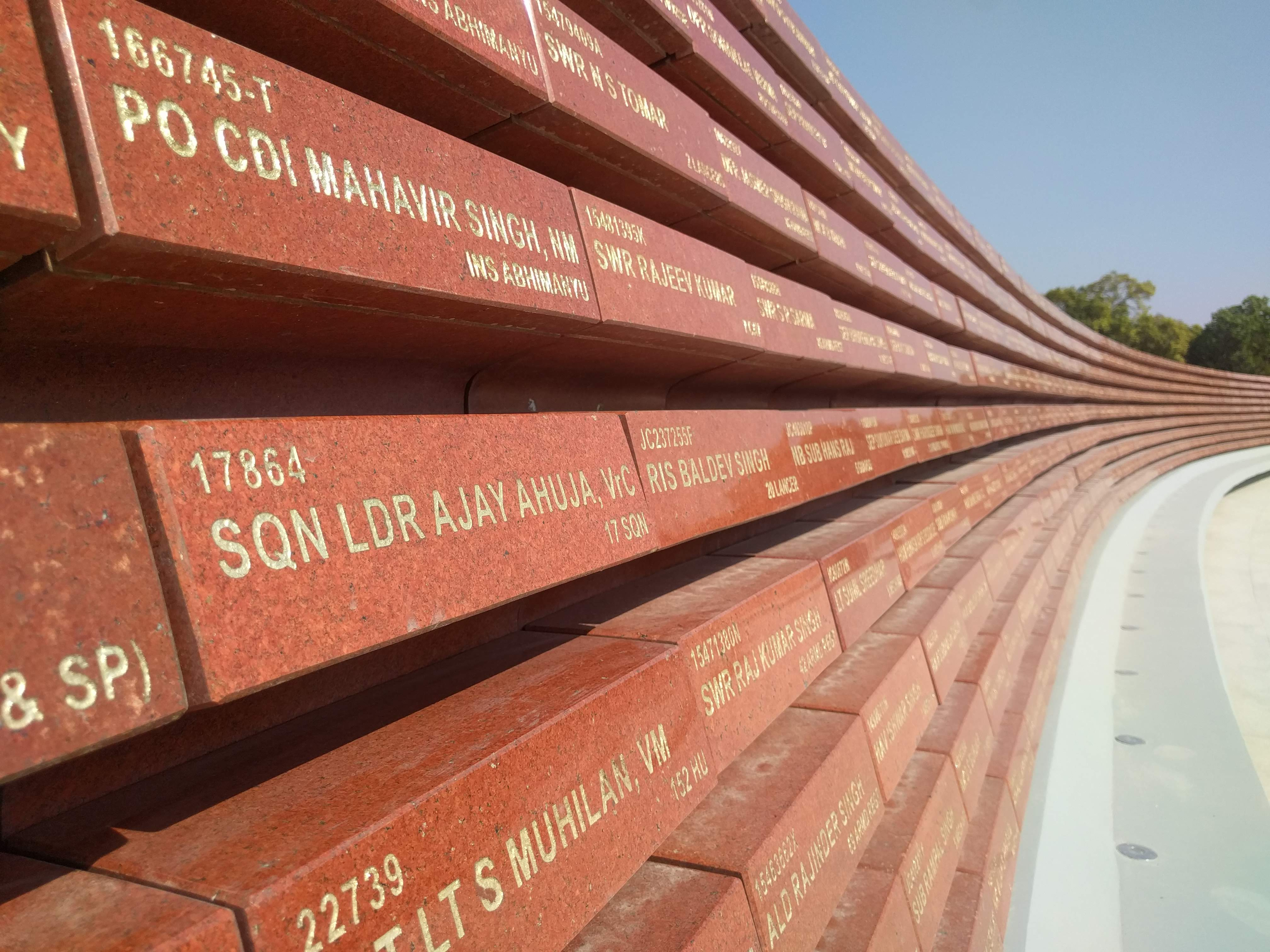 National War Memorial, Tyag Chakra, Circle of Sacrifice. Among the names visible is that of Squadron Leader Ajay Ahuja, killed during the Kargil War.